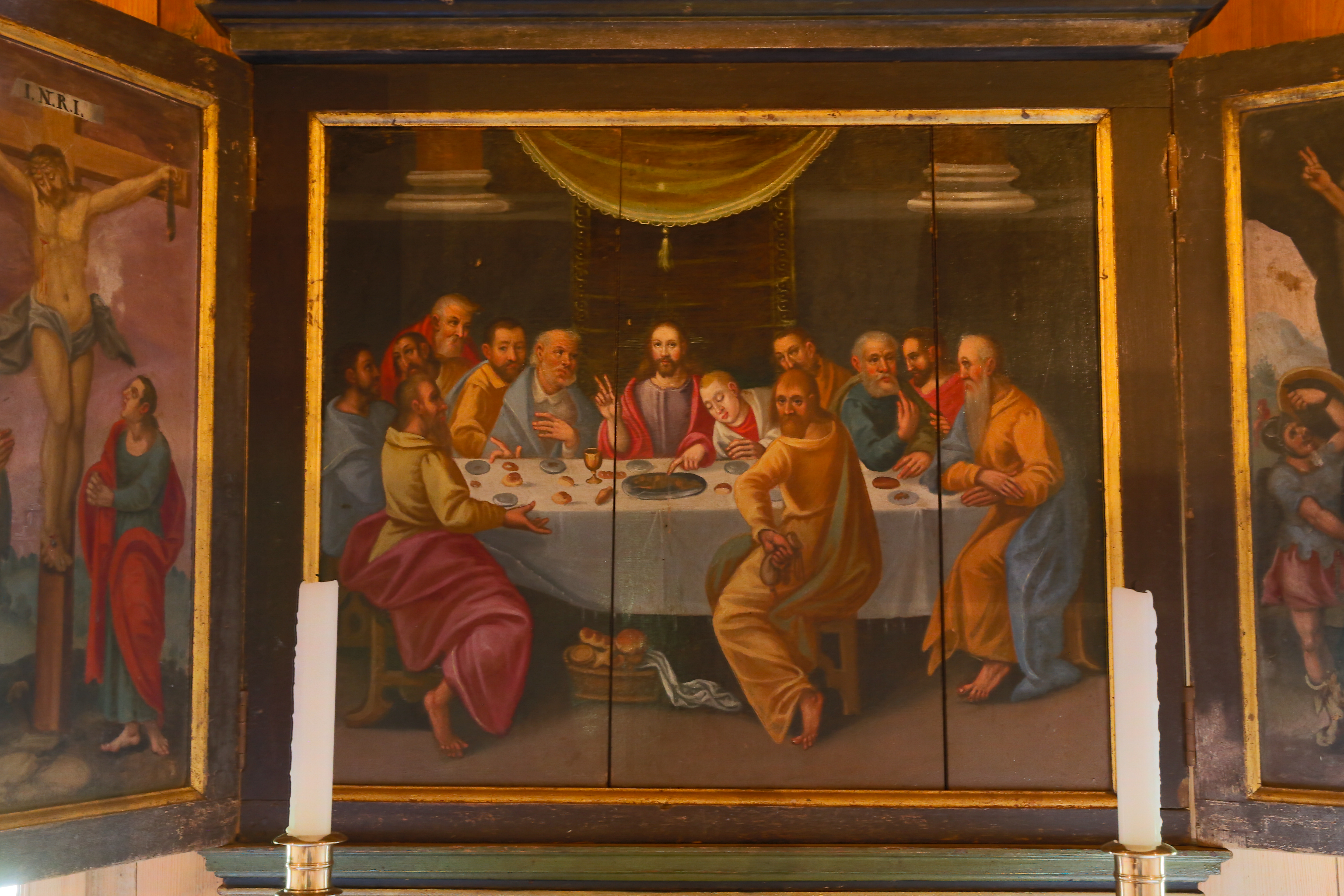 Turf church of Vidimyri - Altarpiece